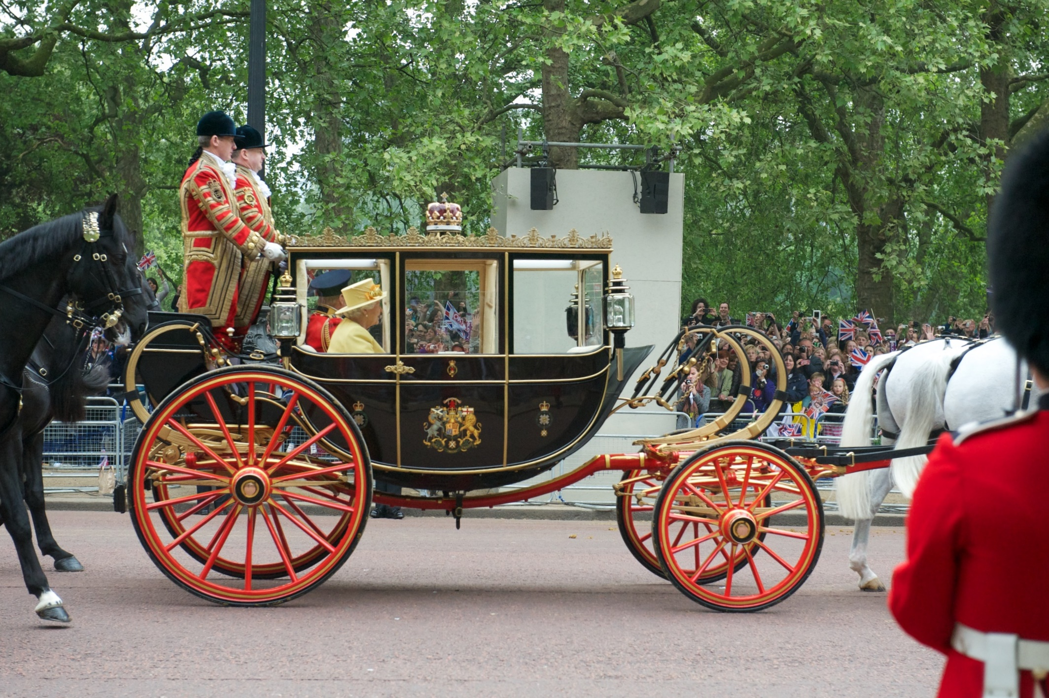 The carriage carrying Queen Elizabeth II and Prince Philip, Duke of Edinburgh from the marriage ceremony of Prince William, Duke of Cambridge, and Catherine Middleton.